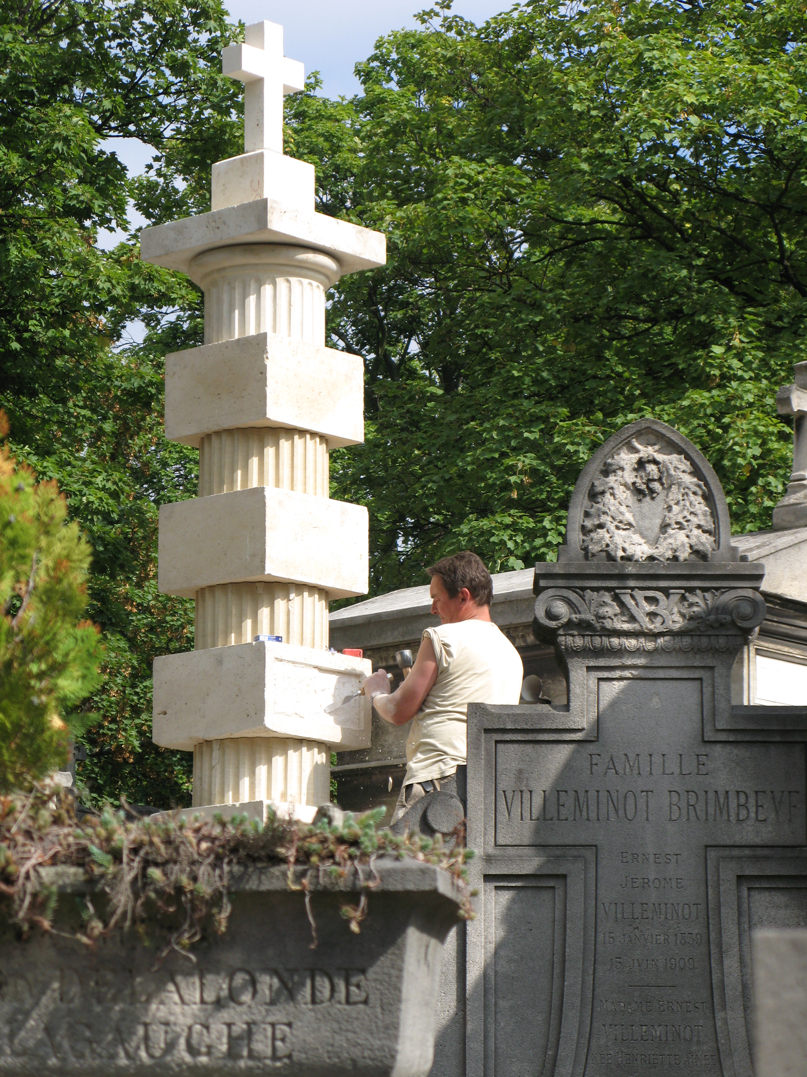 Monument maker in Pere Lachaise cemetery